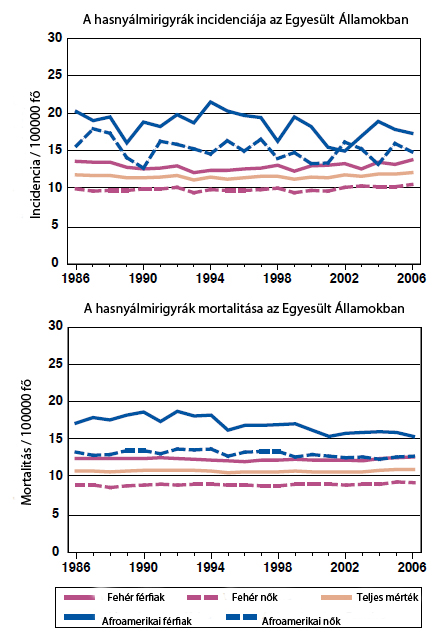 Mortality and incidency of pancreas cancer